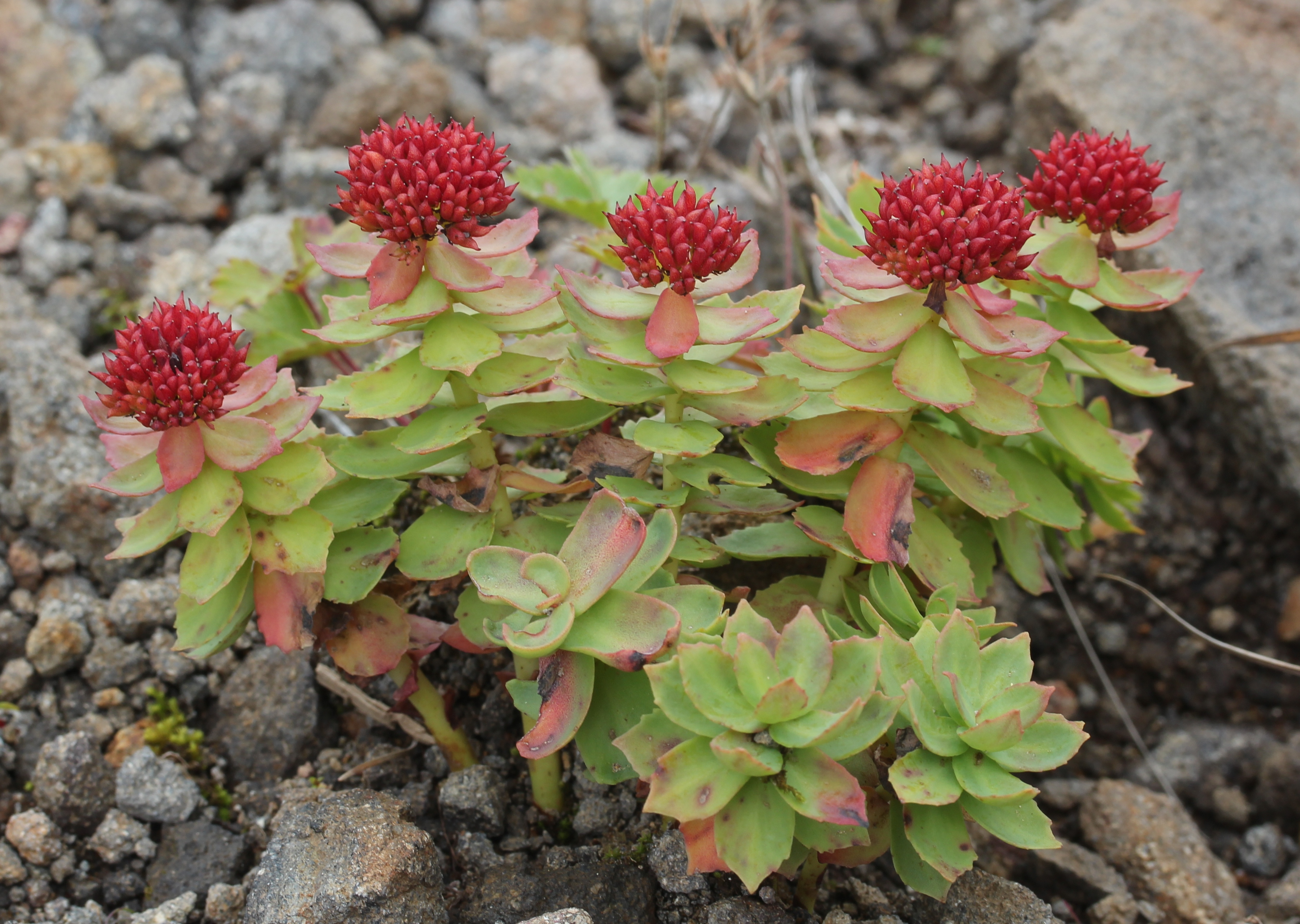 Rhodiola rosea, female, in Mount Ontake, Takayama, Gifu prefecture, Japan.